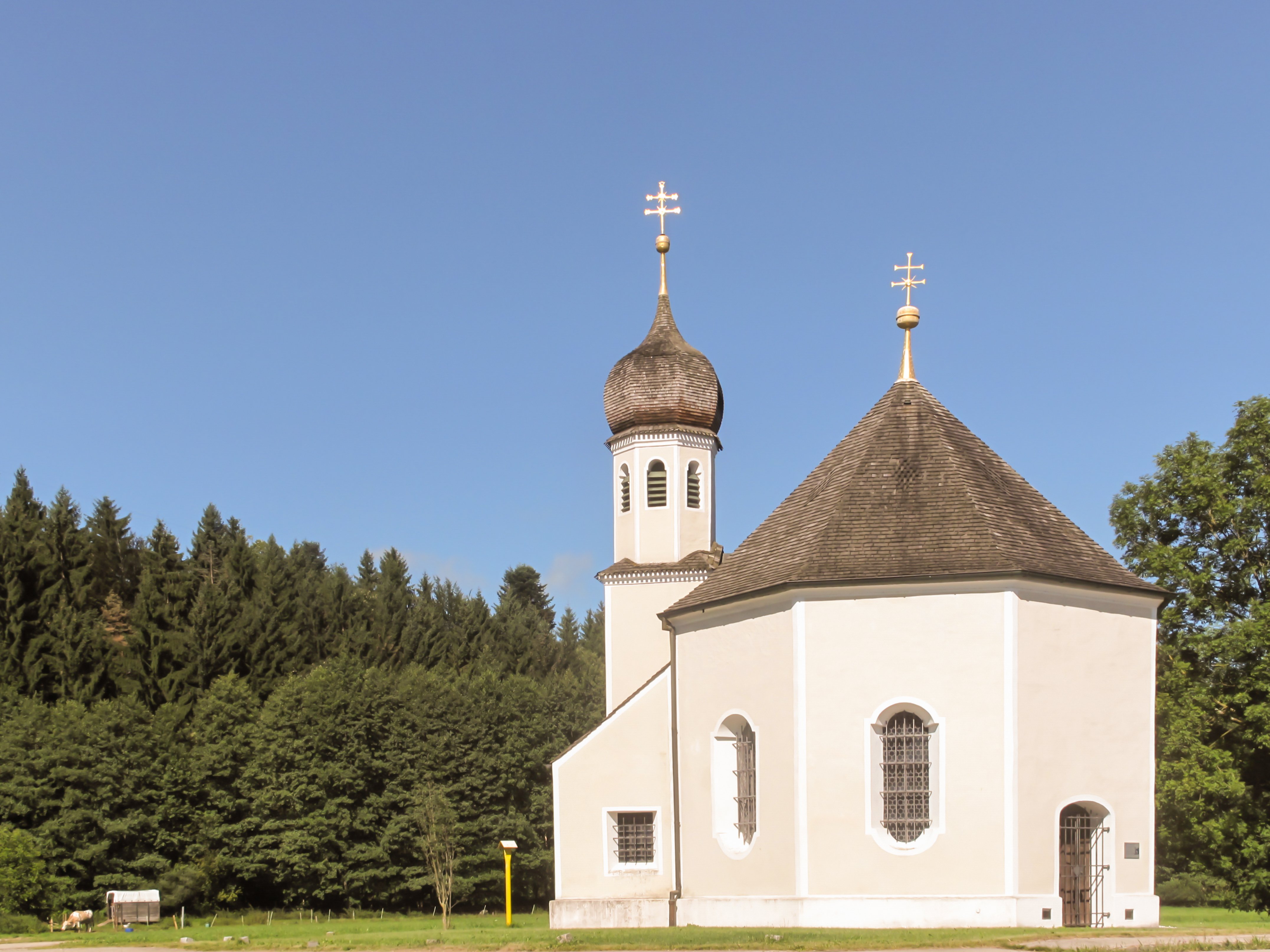 Geretsried, chapel Kapelle Sankt Nikolaus